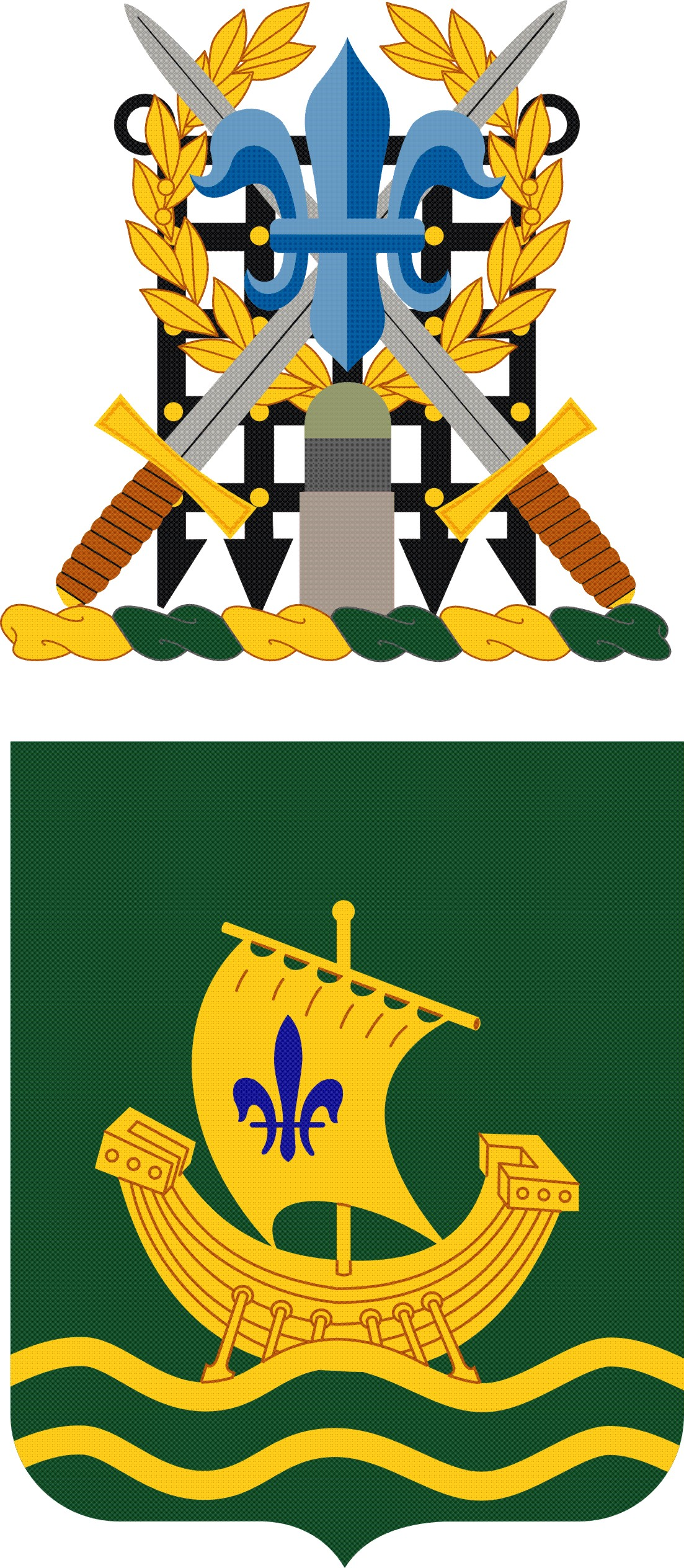 709th Military Police Battalion coat of arms